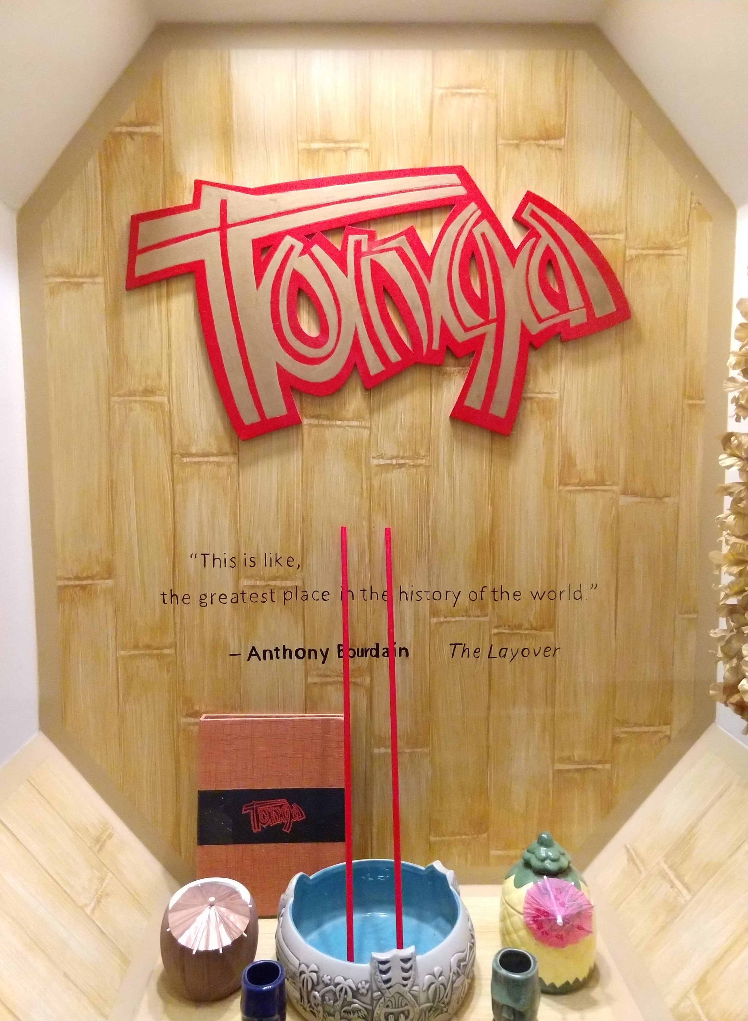 A display window near the entrance to the Tonga Room, with a quote from Anthony Bourdain. Taken July 2019